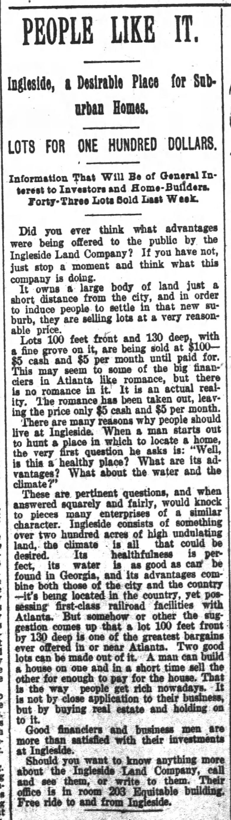 Ad for Ingleside, GA, Atlanta Constitution, September 18, 1892